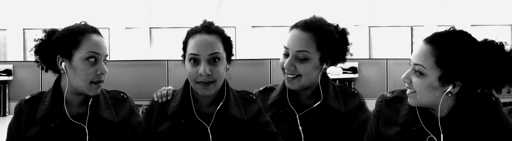 A Photoshop rendition of multiple personalities.